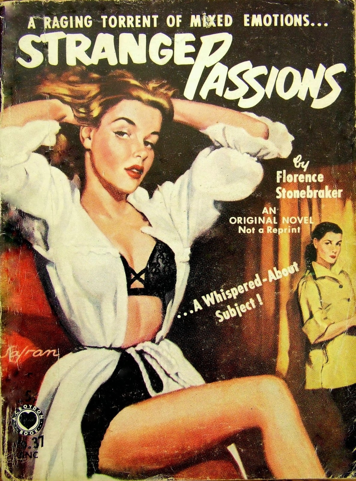 Cover of "Strange Passions" by Florence Stonebraker. Illustration by Bernard Safran.